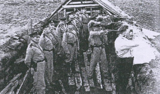 Icelandic officers training in a trench in 1940 on Vaðlaheiði near Laugarvatn.